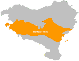 Trantsizio klima Euskal Herrian